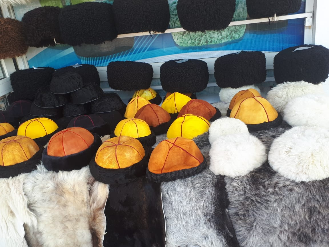 Turkmen headdress(Telpek) This photo has been taken in the country: Turkmenistan